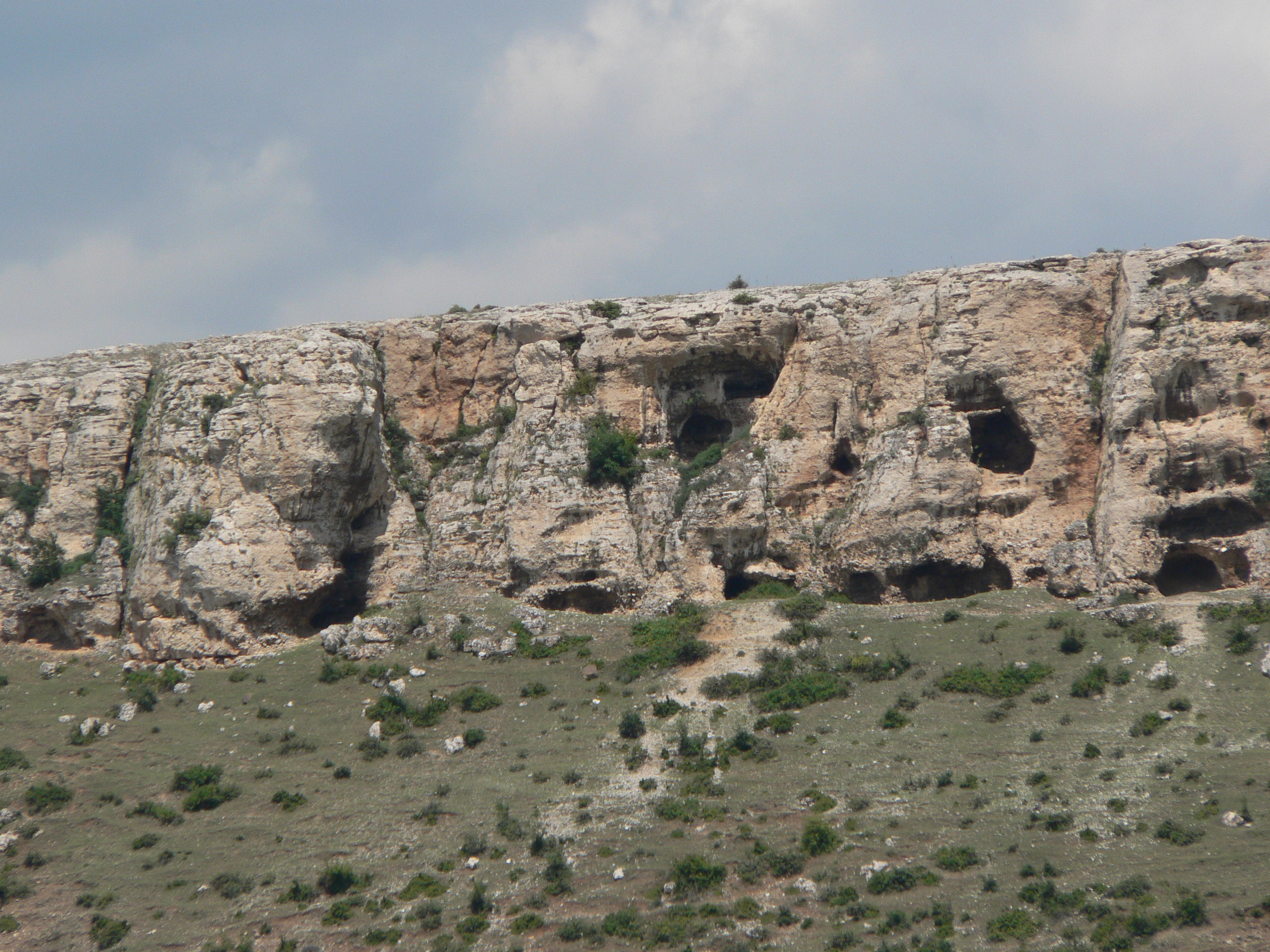 Shpellat karstike të Përbregut